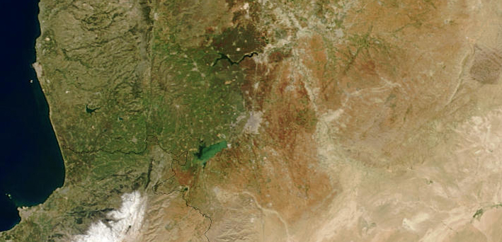 Satellite image centred on Homs in March 2004. Cropped image, original taken from NASA's Visible Earth